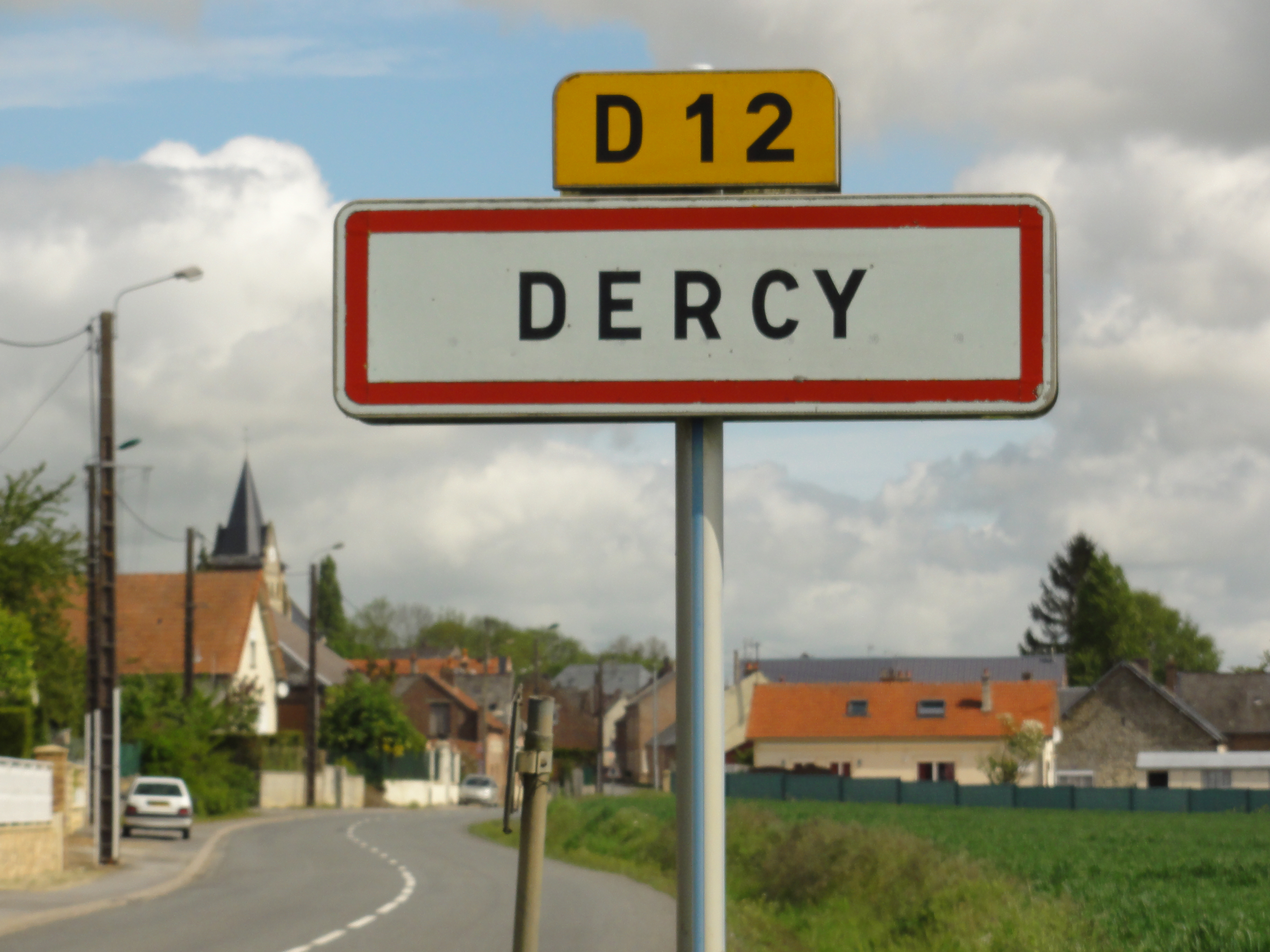 Dercy (Aisne) city limit sign